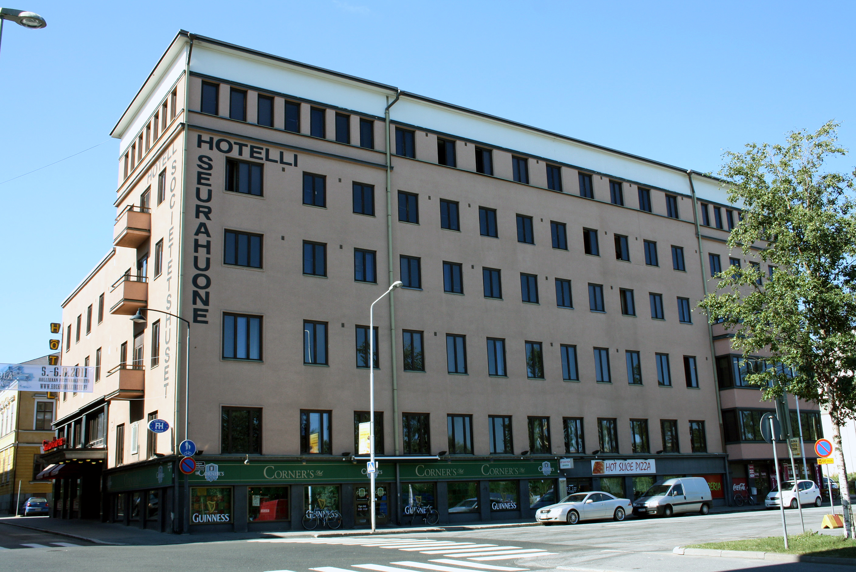 Hotelli Seurahuone in Kokkola, Finland